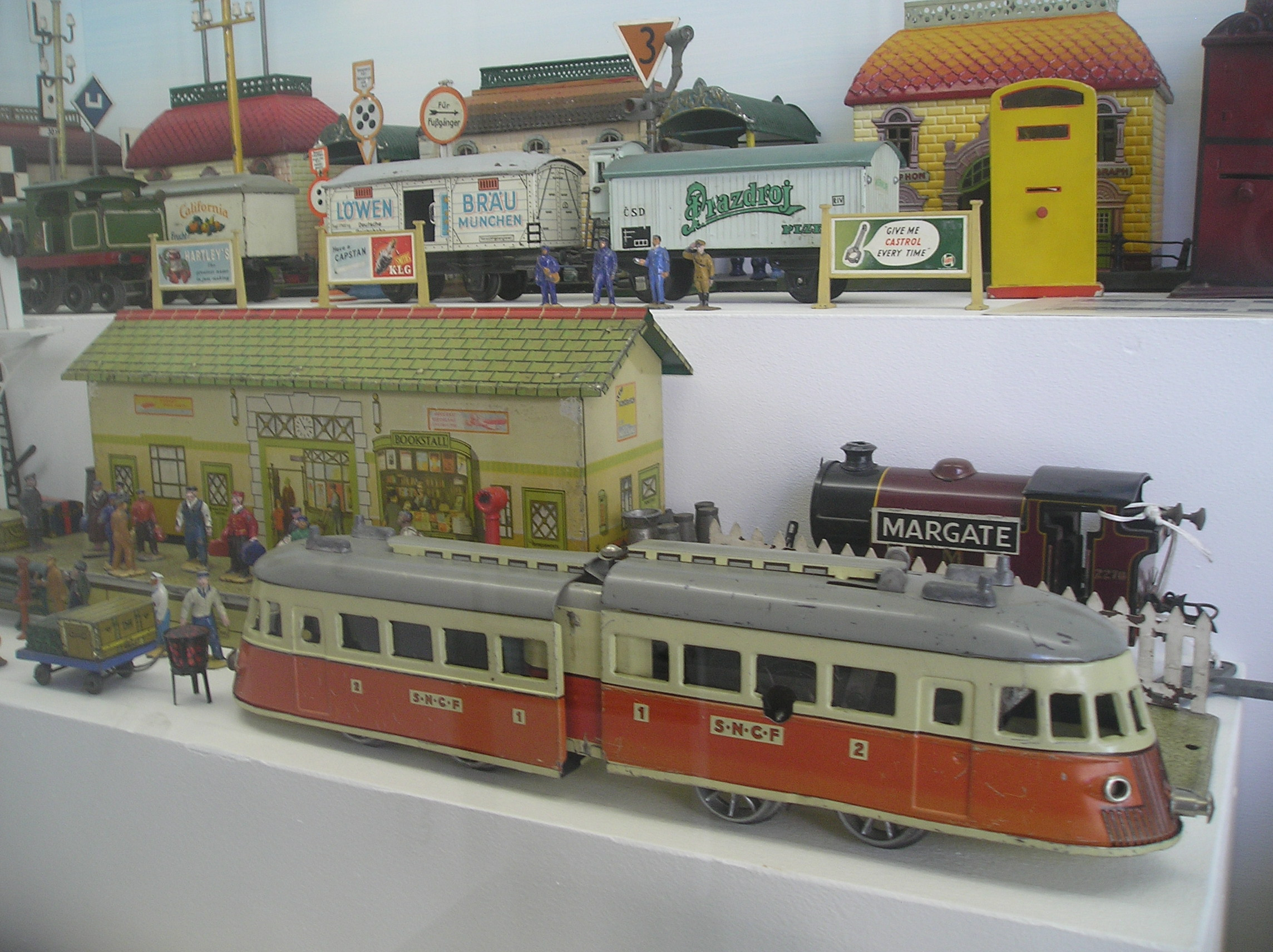 The Toy Museum in Prague.